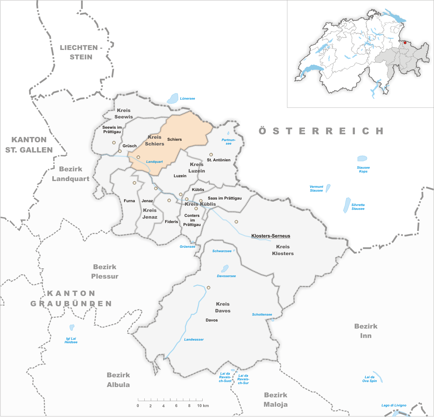 Municipality Schiers